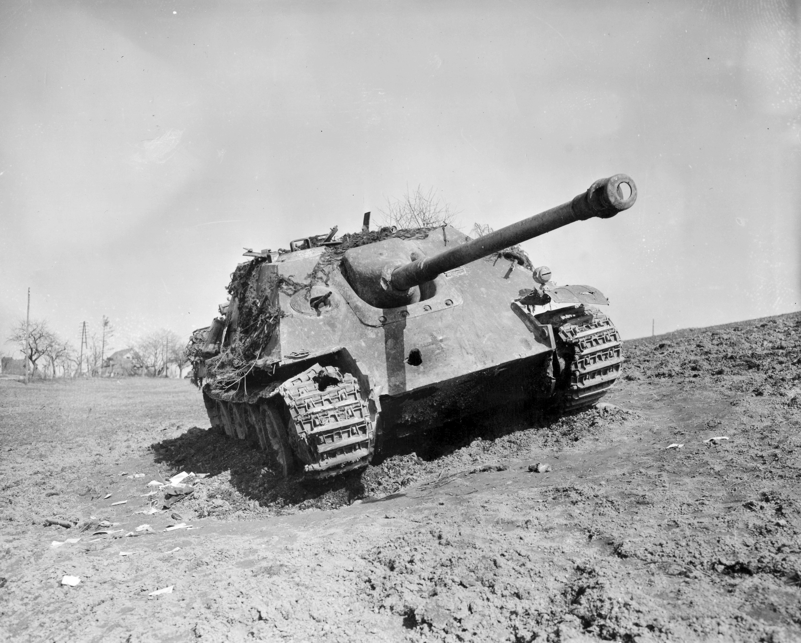 A Jadgpanther tank destroyer from schwere Panzerjäger-Abteilung knocked out by U. S. tankers 654 (probably) on March 13, 1945 near Hargarten, Germany